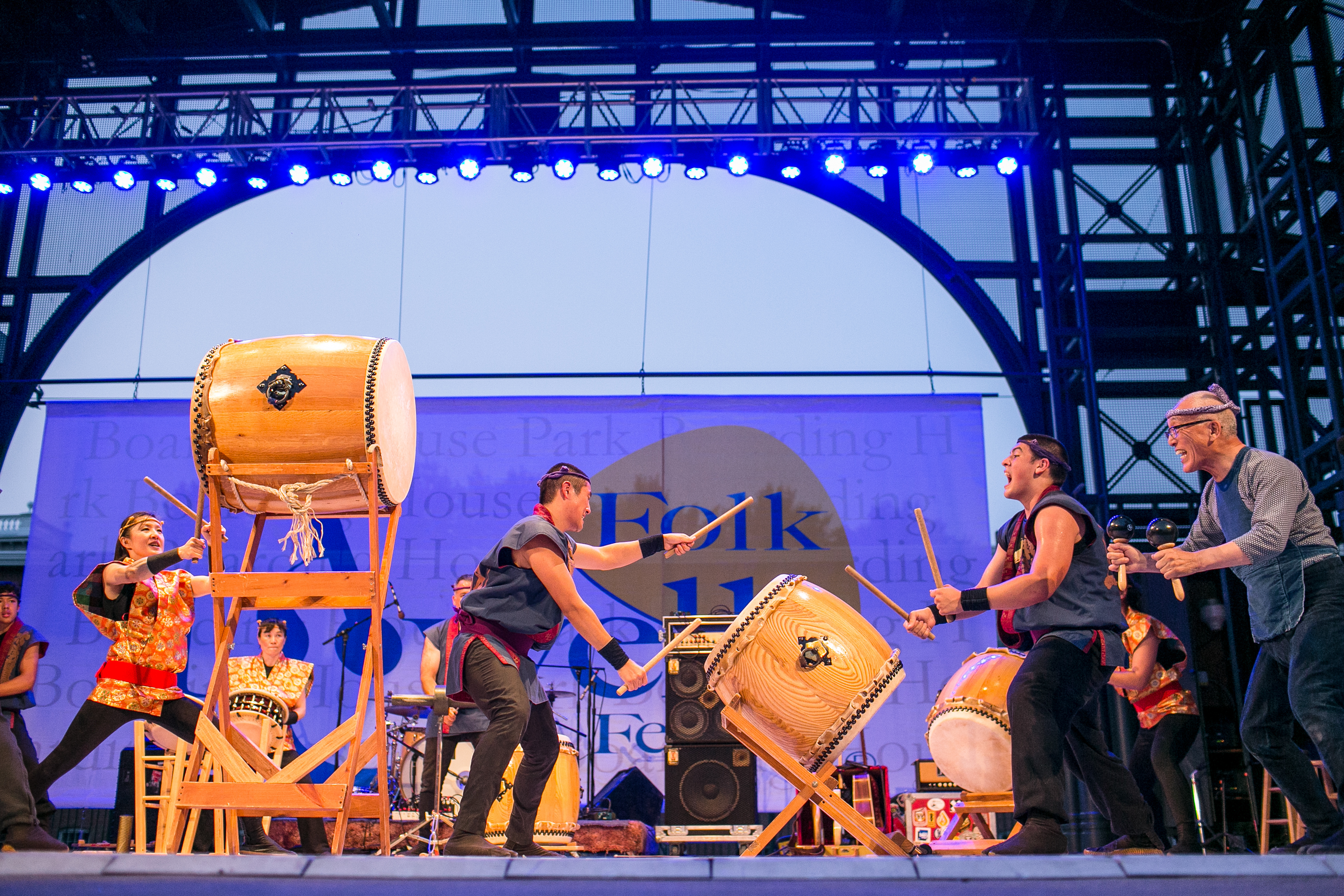 On stage, under the hue of blue lights, performers lean toward the taiko drums with a degree of bend in their knees. Two performers play on a drum on a slanted stand; a performer hits a drum on an elevated stand; and, an older performer has a rattle in each hand. Grandmaster Seiichi Tanaka and the San Francisco Taiko Dojo. Seiichi Tanaka is a Grand Master of the ancient Japanese form of ritual drumming known as taiko. This art-form involves physically demanding choreographic movement in tandem with percussive sound. Tanaka arrived to the U.S. in 1967, and he founded the first taiko dojo in North America in 1968. Practicing taiko for nearly five decades, Tanaka's first student at the dojo, Nosuke Akiyama, is also a master lion dancer and led the group's performance in the Lowell Folk Festival (2014). Keywords: Historical; Drum; Taiko; Dojo; Festival; dance; San Francisco; Seiichi; Tanaka